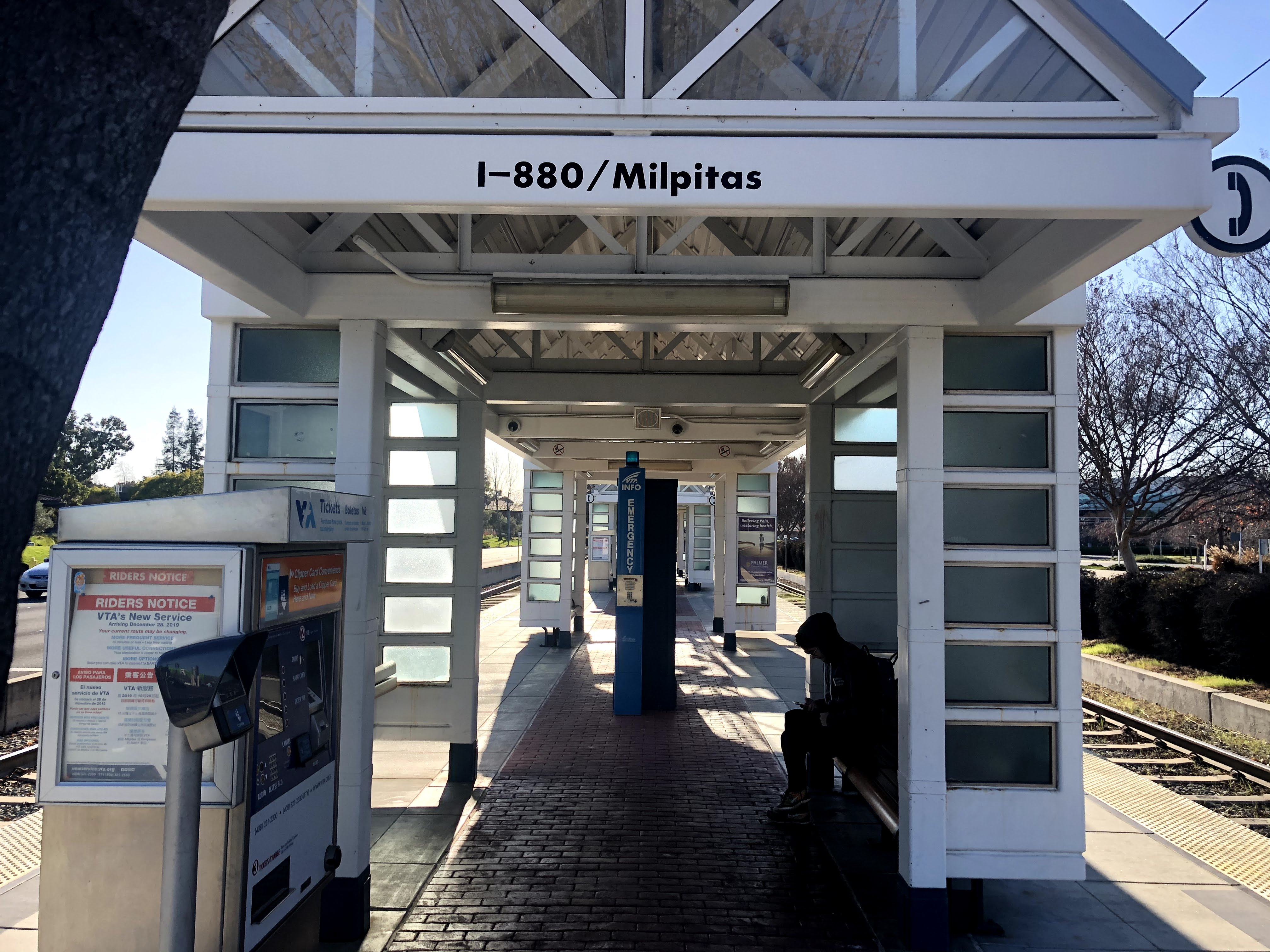 Taken when the station signage still said "I-880/Milpitas"